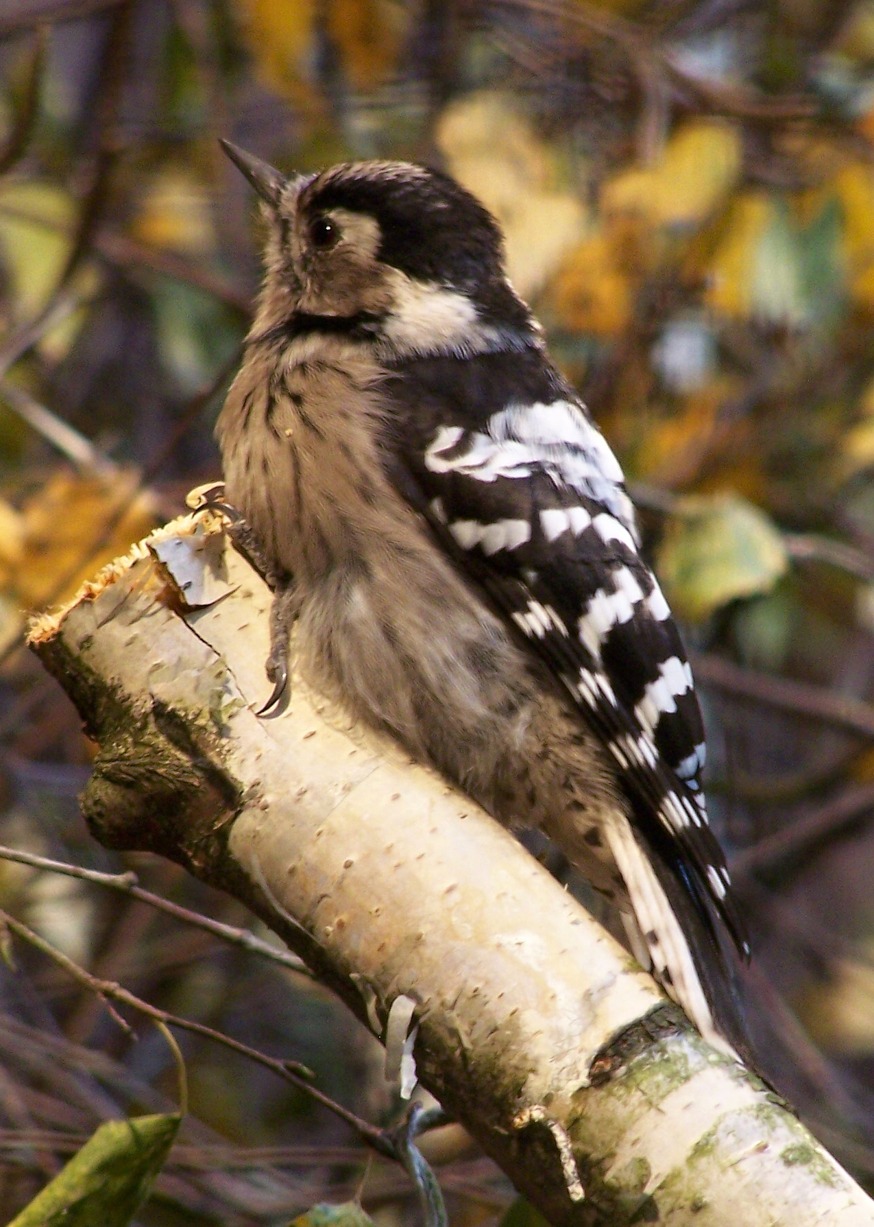 Dendrocopos minor, a female perching on a branch.